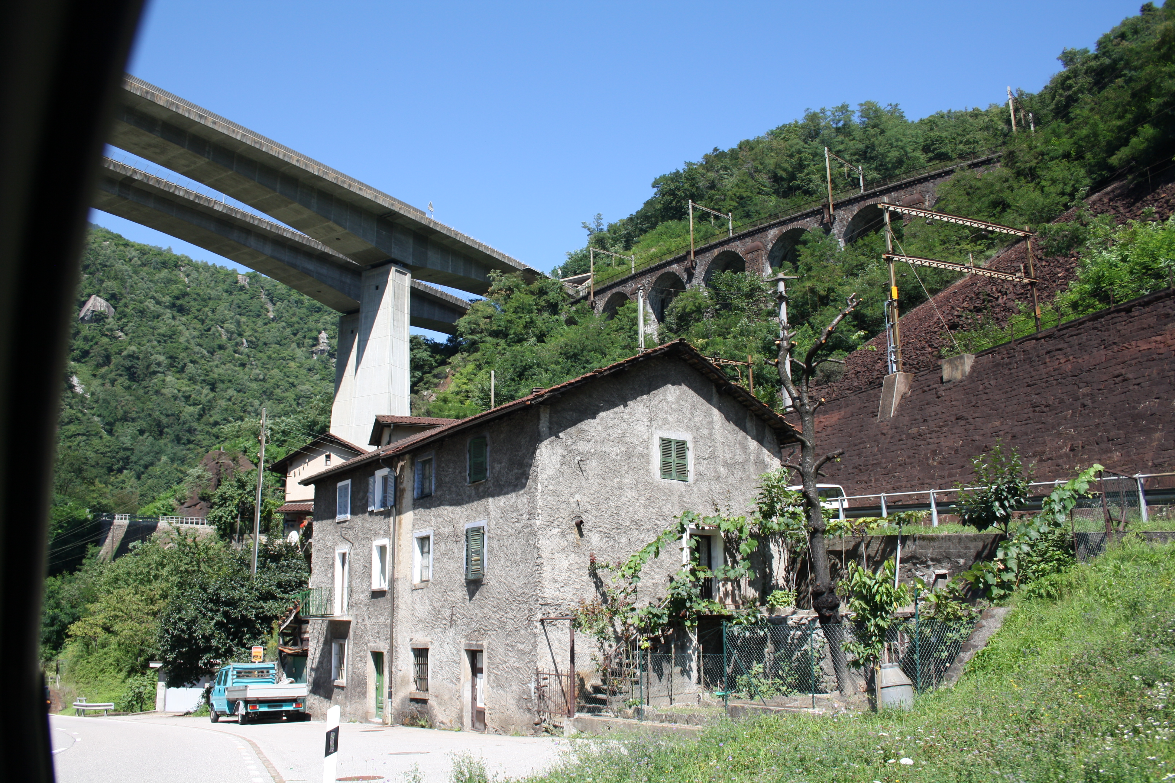 The beautiful combination of transport. High in the air the main road A2 Gotthardbahn, to the right the railway, standing on the local Gotthardroad. Giornico is a small town in the region Leventina.